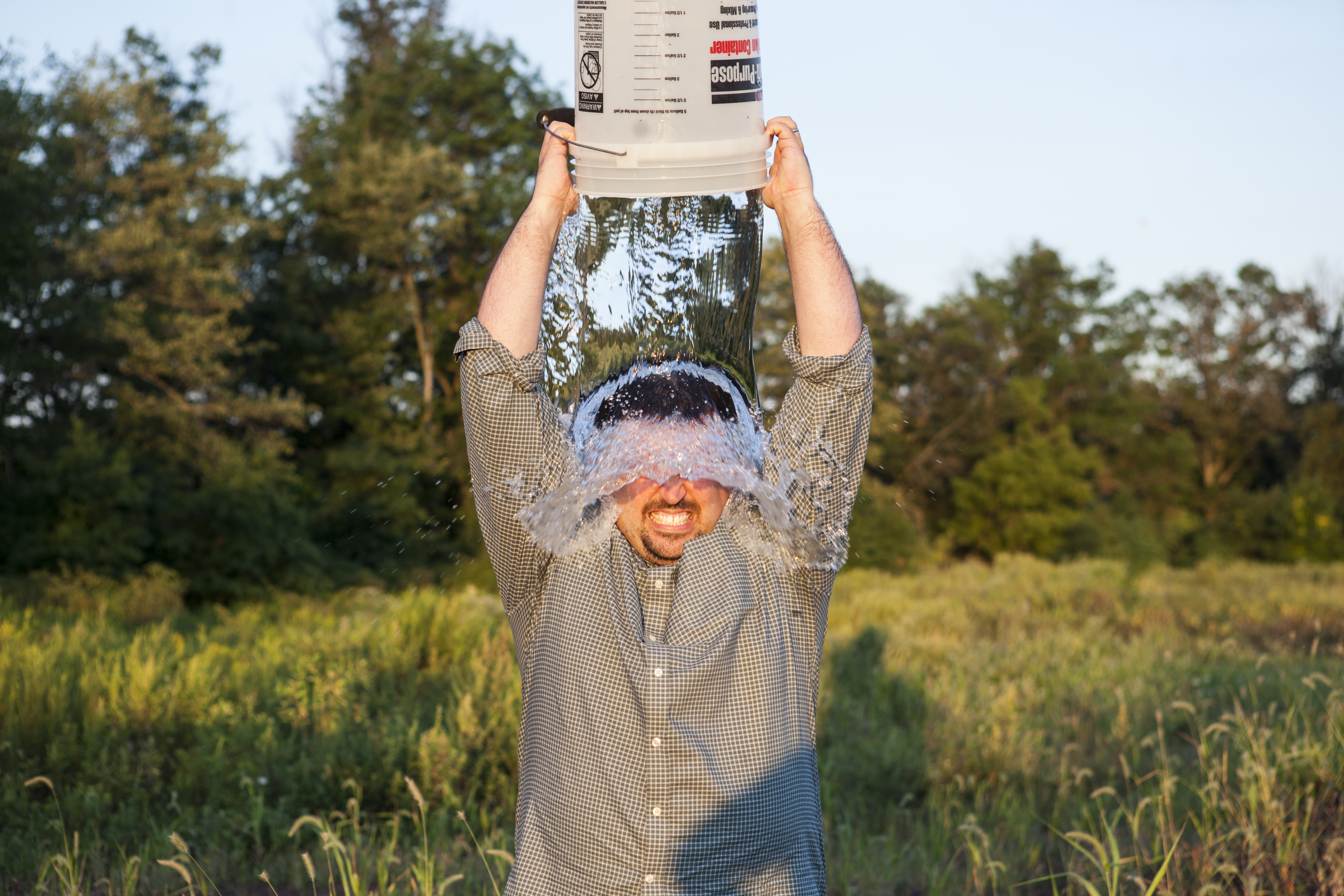 See the video here: Used a GoPro to have the perspective from inside the bucket. Photo taken by my wife Kim Quintano. See her photography here